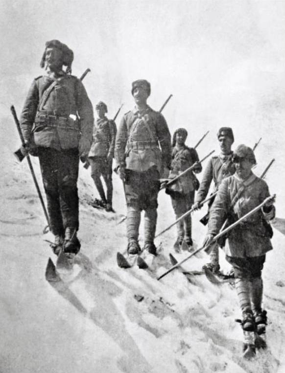 Battle of Sarıkamış Soldiers with their winter gear